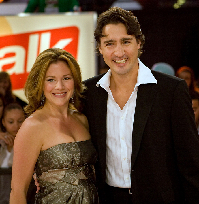 Justin Trudeau and wife Sophie Gregoire at the eTalk Festival Party, during the Toronto International Film Festival.